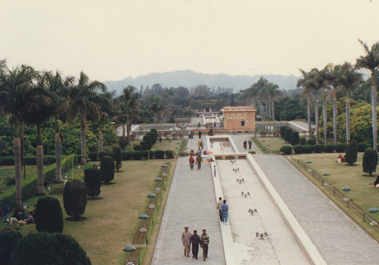 Pinjore Gardens or Moghul garden near Chandigarh